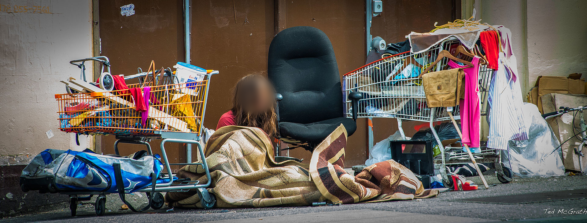 A typical downtown east side (DTES) Vancouver BC scene. Often, as in this case, set up in front of a Government building. These locations add a measure of protection against eviction as authorities are loath to move on the squatters for fear of being dragged into court by the do-gooder groups (poverty pimps) and their lawyers. I have lived adjacent to the DTES for 20 years and in that time little has changed to correct the purveyors of drugs, drug users (many who have mental issues) and prostitution. Over several decades governments have built a community of "customers with no cash". It has been politically easy for them to zone the area for subsidized housing with little opposition from residents who have little political clout. As a result businesses find it difficult to set up shop and make a living. There is a "cottage" industry of groups both private and government in the area to assist the homeless find shelter. It is to the point where any attempt to add market housing to the area (customers with cash) are fought vehemently. Reports are there is $1,000,000 spent daily in this community with no visible effect. Some streets in the area I will not walk down and I avoid the entire area late at night. The above in my opinion only. Regardless of all the issues in the area, it is still a gem for its history and fine examples of early Vancouver architecture and I visit the area daily, shopping for produce in Chinatown.